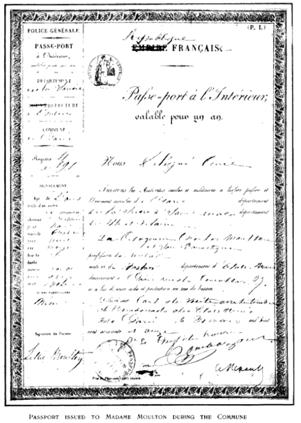 Passport signed by Raoul Rigault for Madame de Hegermann-Lindencrone, 1871, the year of his death.